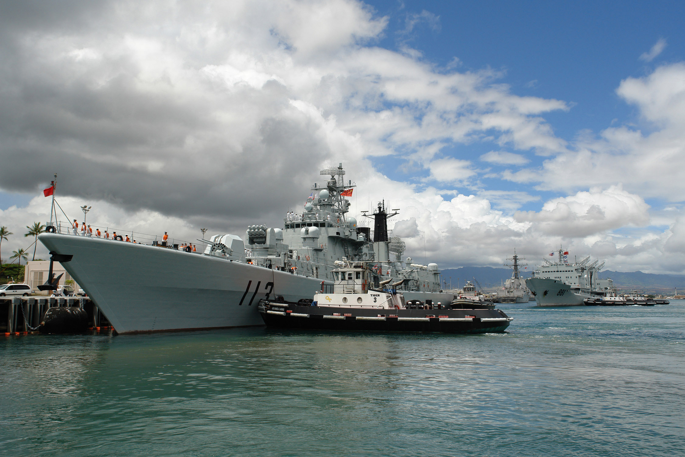 Chinese destroyer Qingdao (DDG 113) and the oiler Hongzehu (AOR 881) arrive in Pearl Harbor, Hawaii, Sept. 6, 2006, for a routine port visit. ID: 060906-N-9643K-008